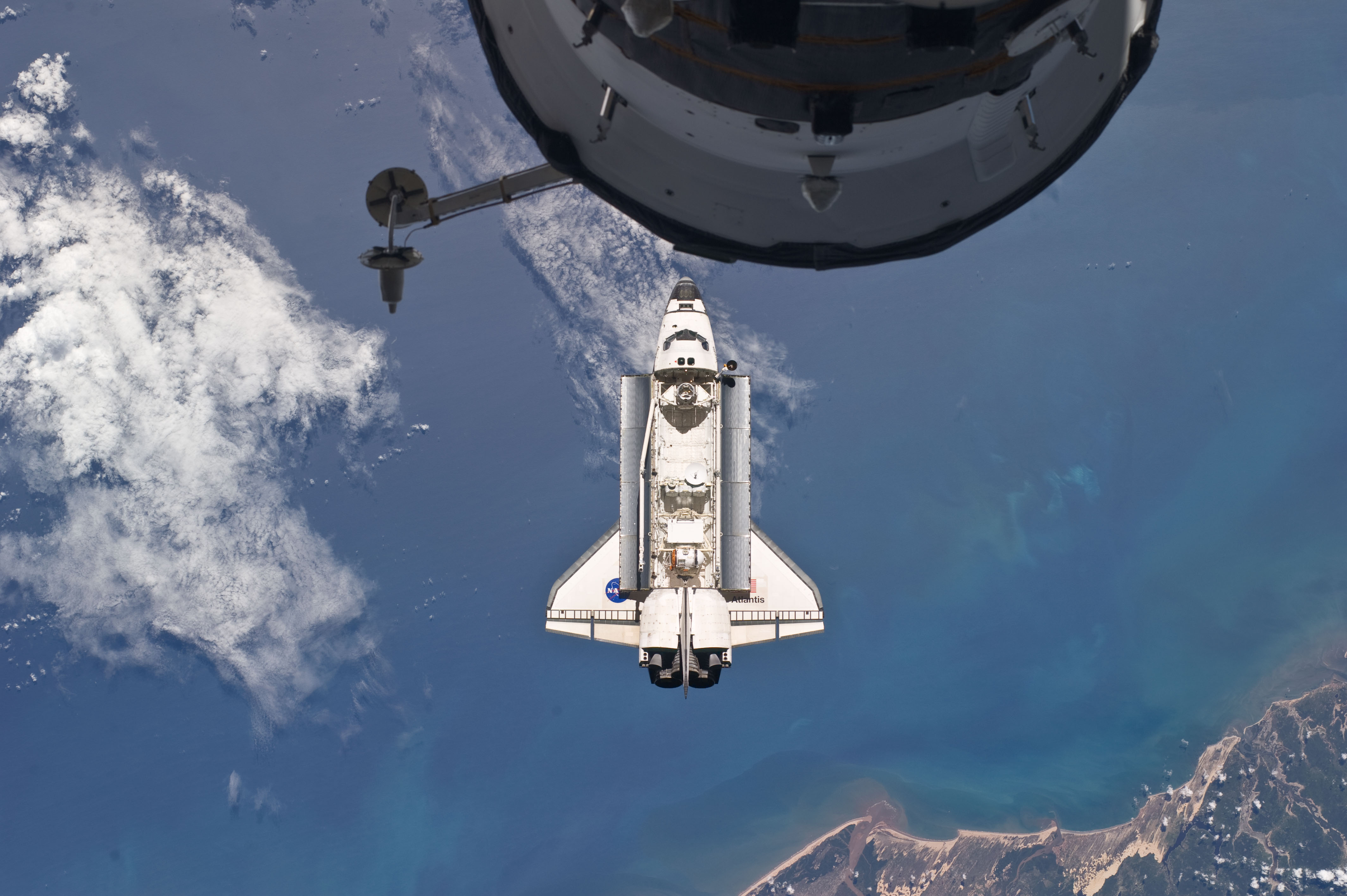 Backdropped by a colorful Earth, space shuttle Atlantis is featured in this image photographed by an Expedition 23 crew member as the shuttle approaches the International Space Station during STS-132 rendezvous and docking operations. Docking occurred at 9:28 a.m. (CDT) on May 16, 2010. A portion of a docked Russian spacecraft is visible at top.